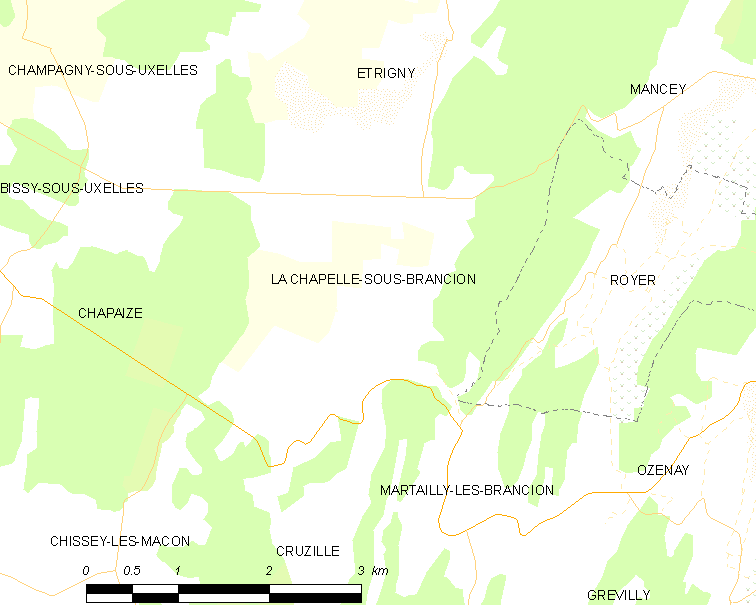 Map of French municipality